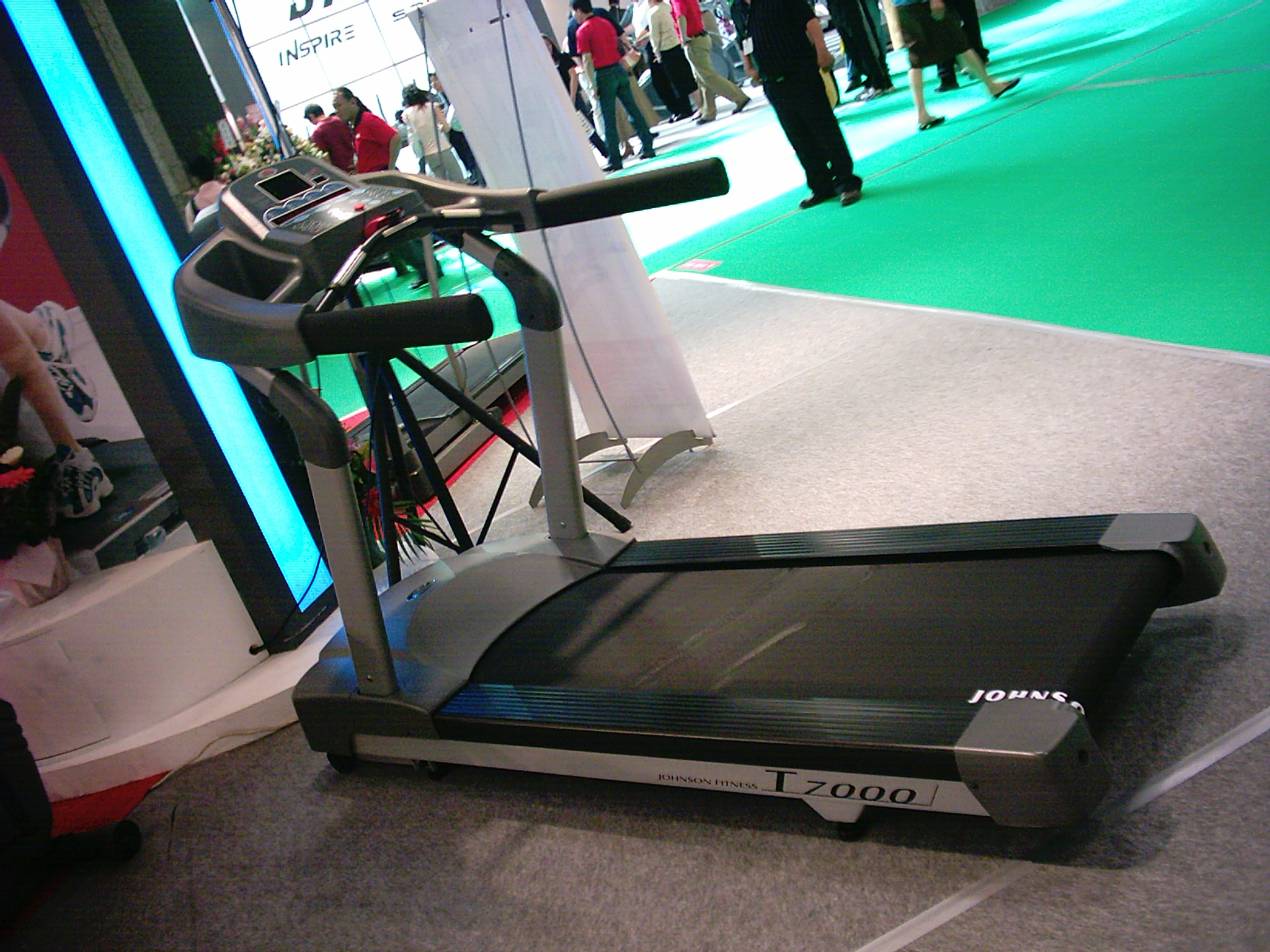 Johnson T7000 Treadmill @ TaiSPO 2006.